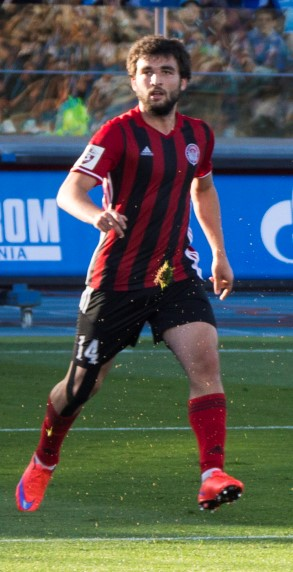 Georgi Dzhikiya